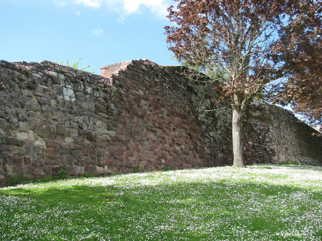 Old Exeter City wall